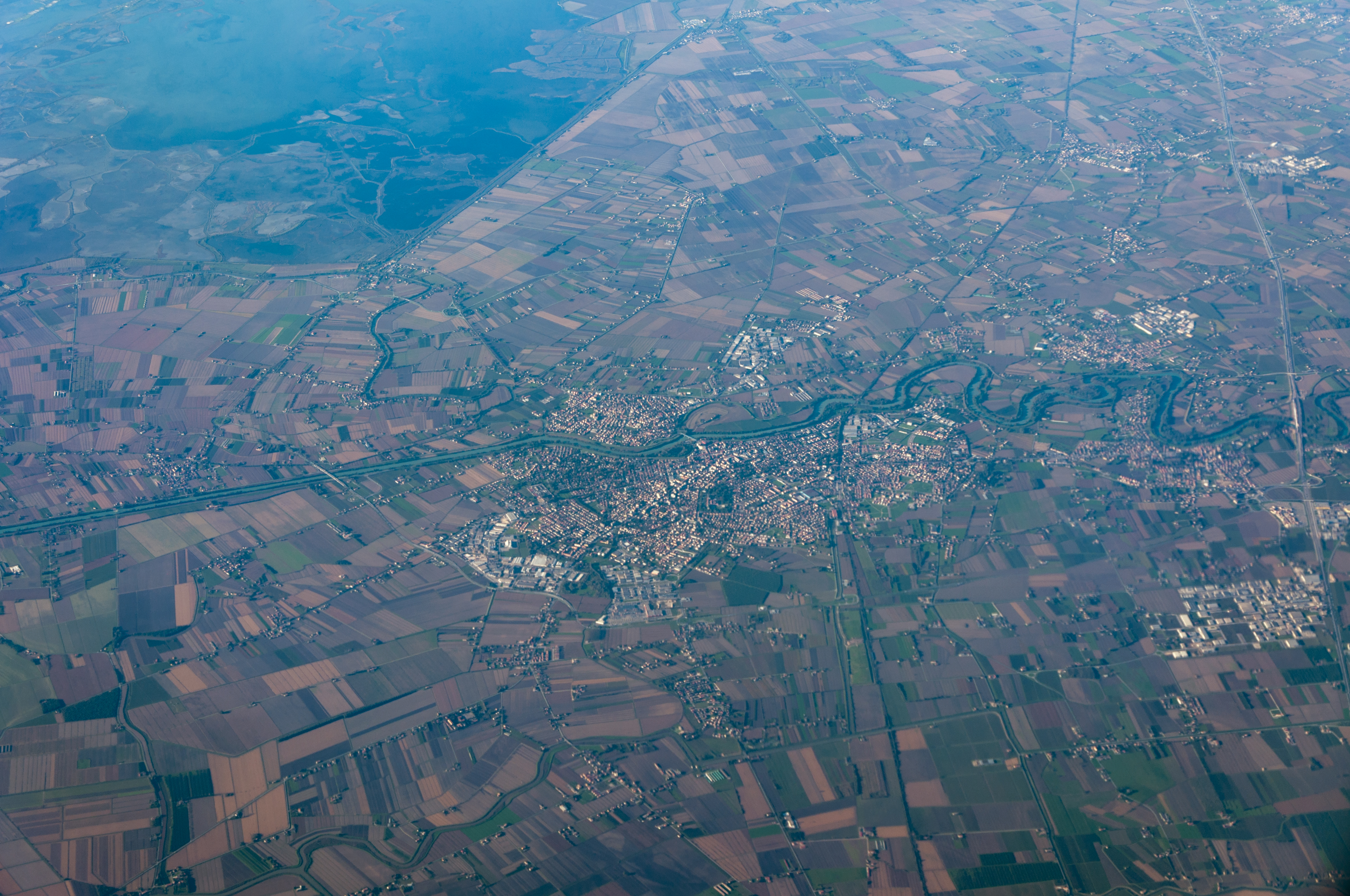 Italy, view overhead Pineda Tragole